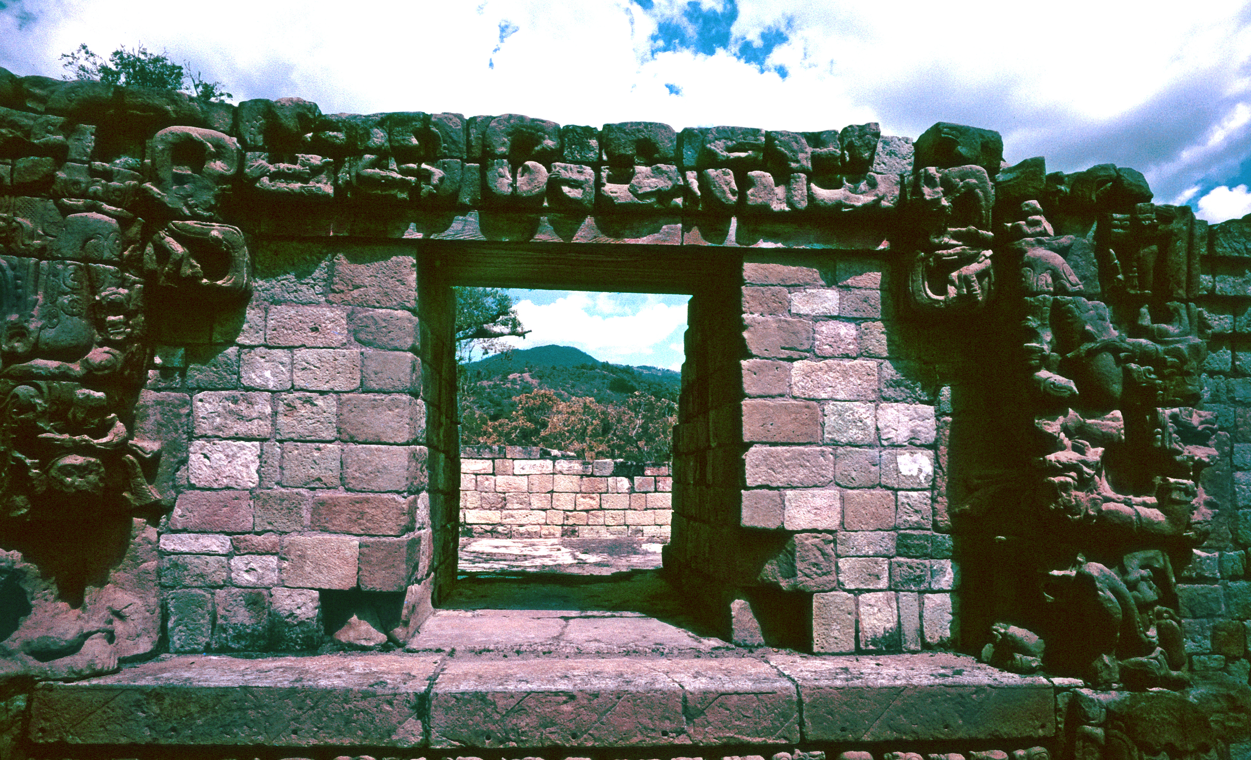 Copan, Honduras, Temple 22 entrance